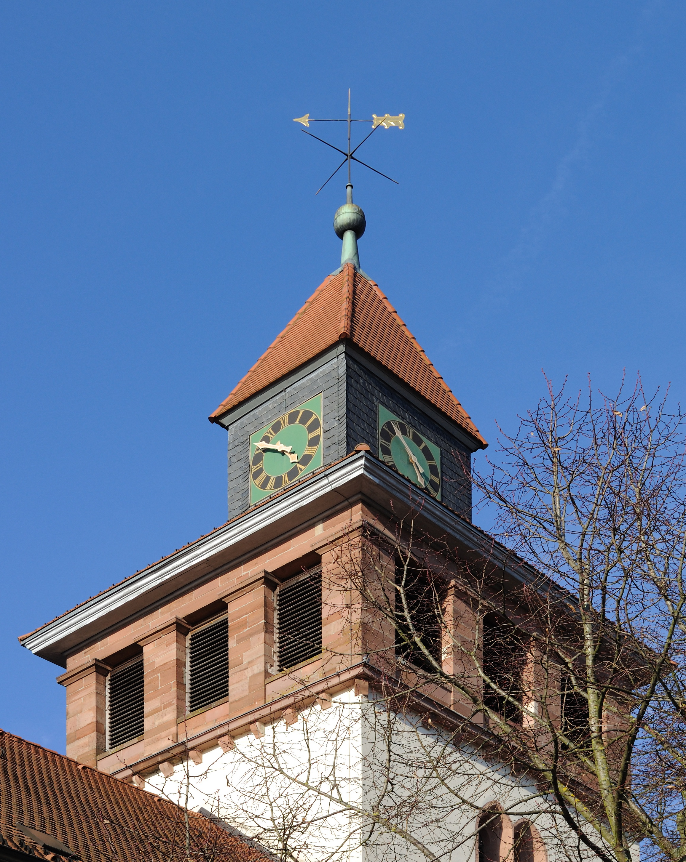 Church Saint Laurentius in Binzen